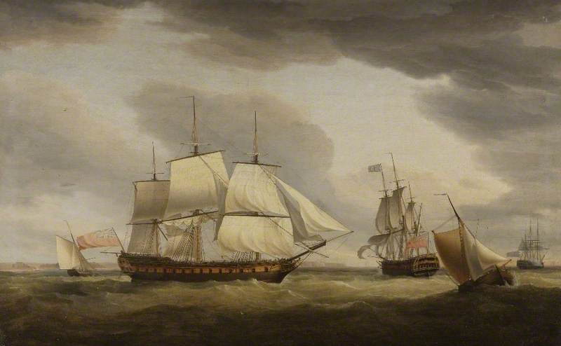 East Indiaman 'Taunton Castle', Captain James Urnston, Built by Mr Barnard for Sir Benjamin Hammet, 1790 Thomas Whitcombe (c.1752–1824) Somerset Museums Service